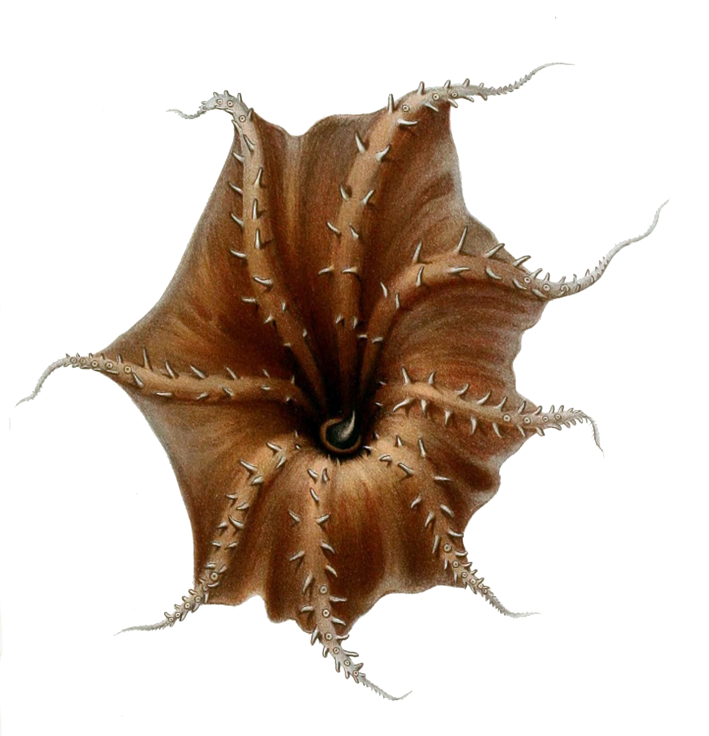 Vampyroteuthis infernalis arms